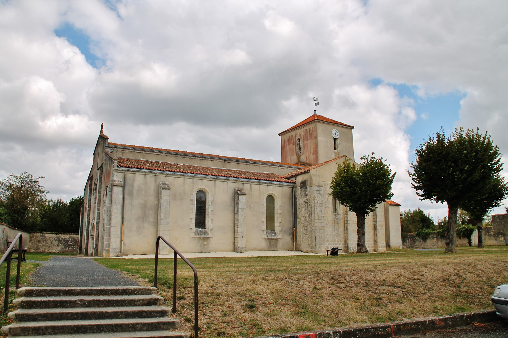 église St Nazaire